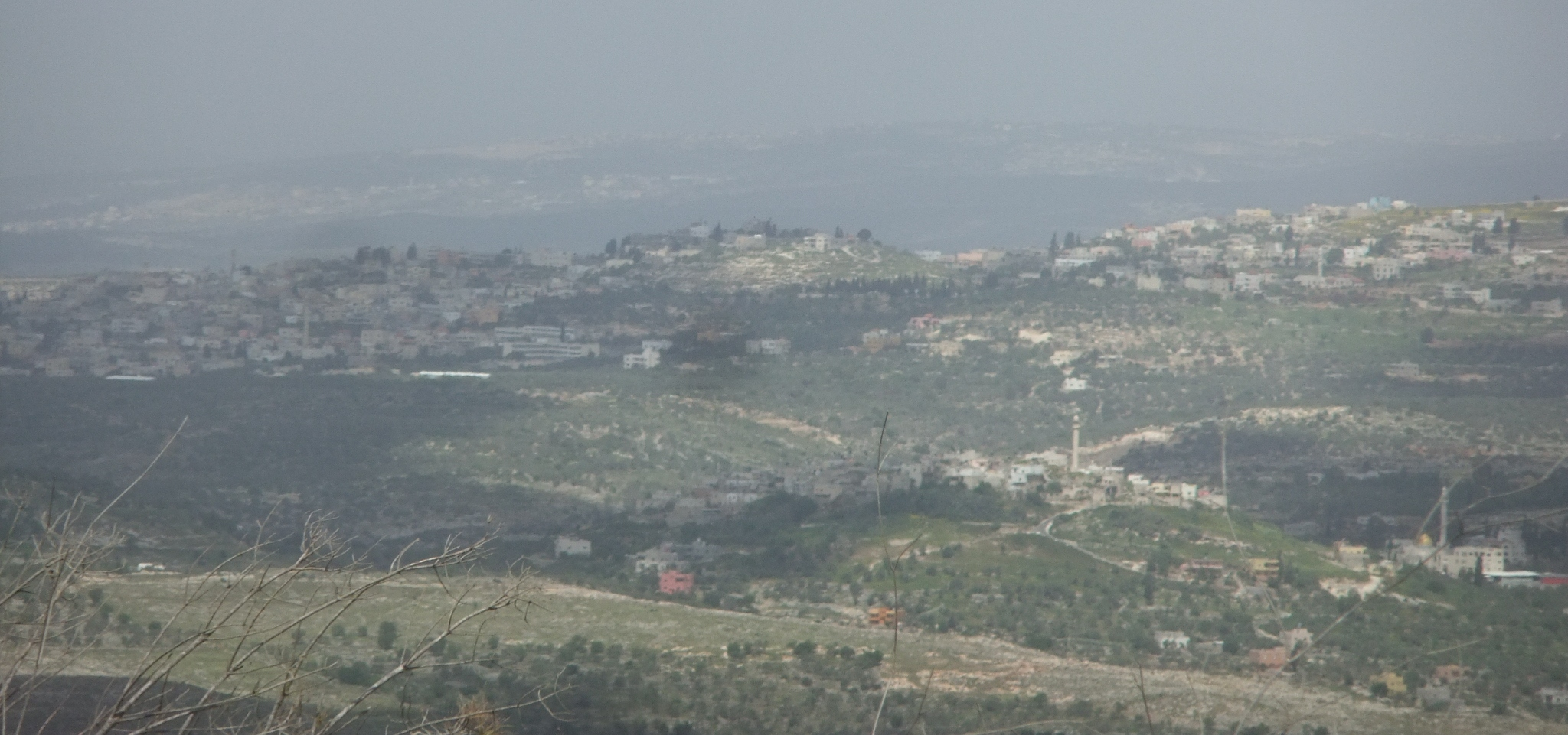 Kafr Rai on the hill. In front is the small village of Rame. View from Homesh in the south.